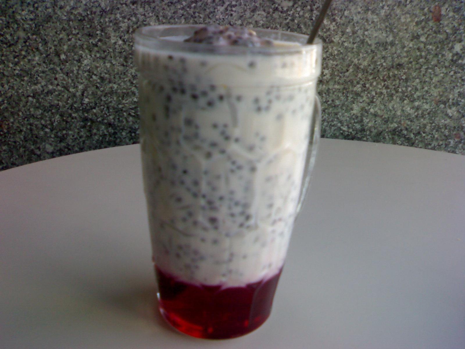 Faluda as served in Hyderabad, India.